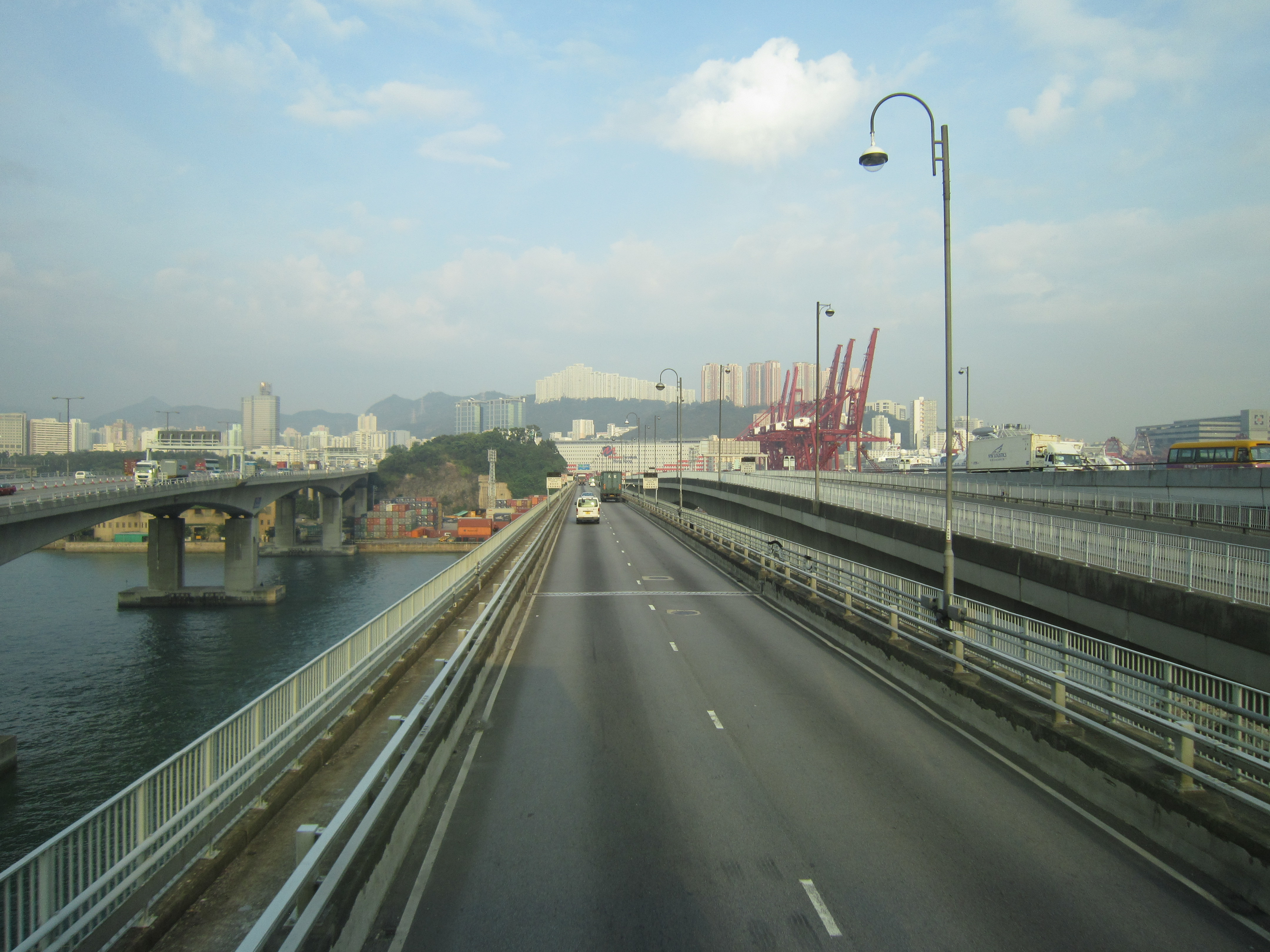 Tsing Yi Bridge traffic